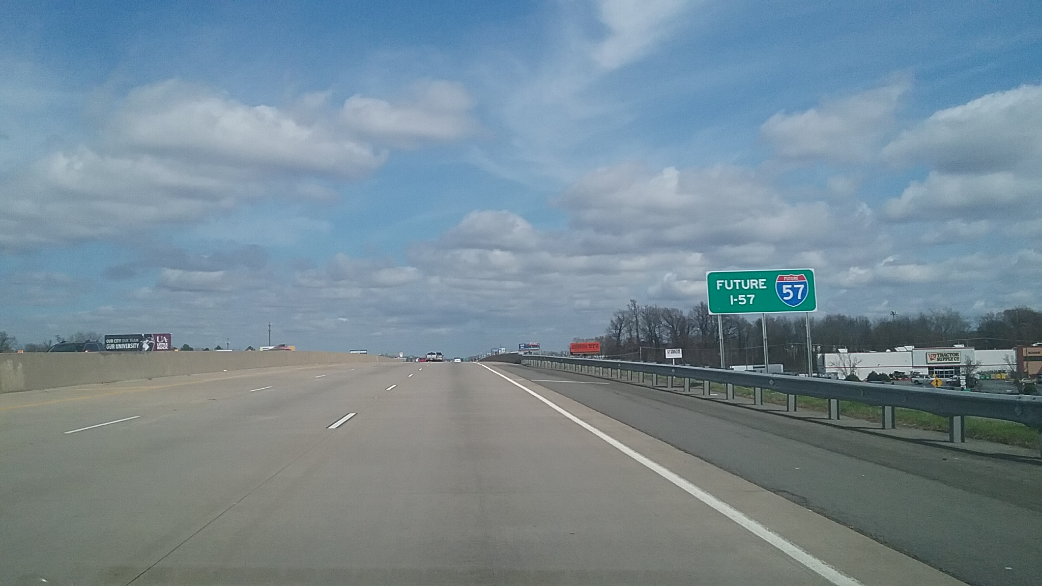 Future Interstate 57 sign. Photo taken in North Little Rock, Arkansas.